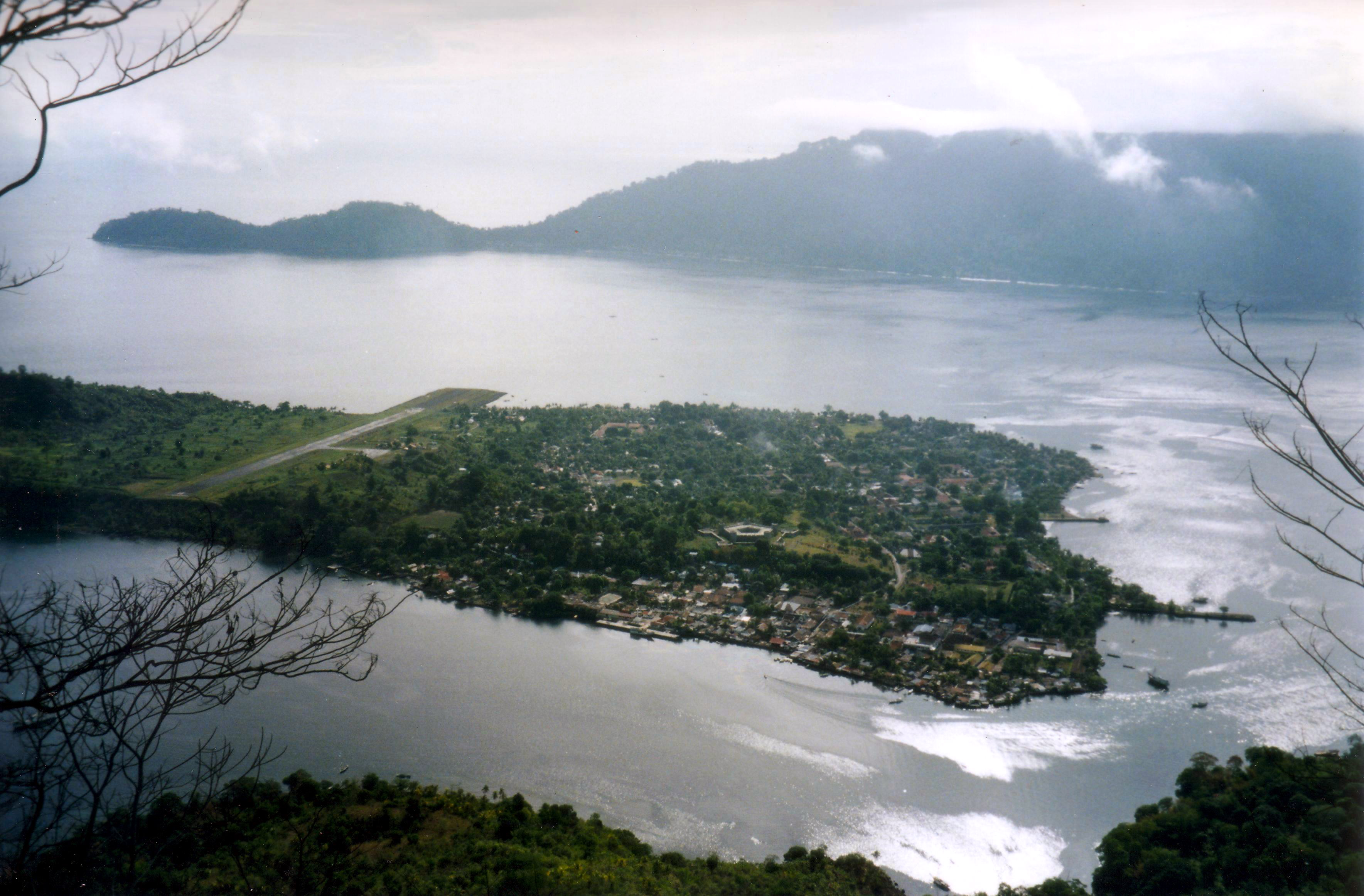 The town of Banda Neira viewed from Gunung Api in the Banda Islands, Maluku, Indonesia